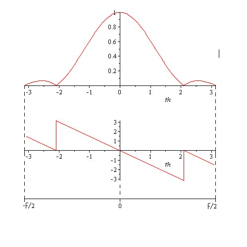 Freq response of a FIR digital system of order 4 (weighted averager)